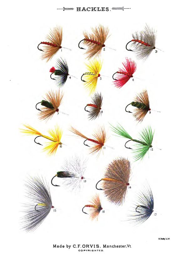 Color Plate A from Favorite Flies and Their Histories - Mary Orvis Marbury, 1892